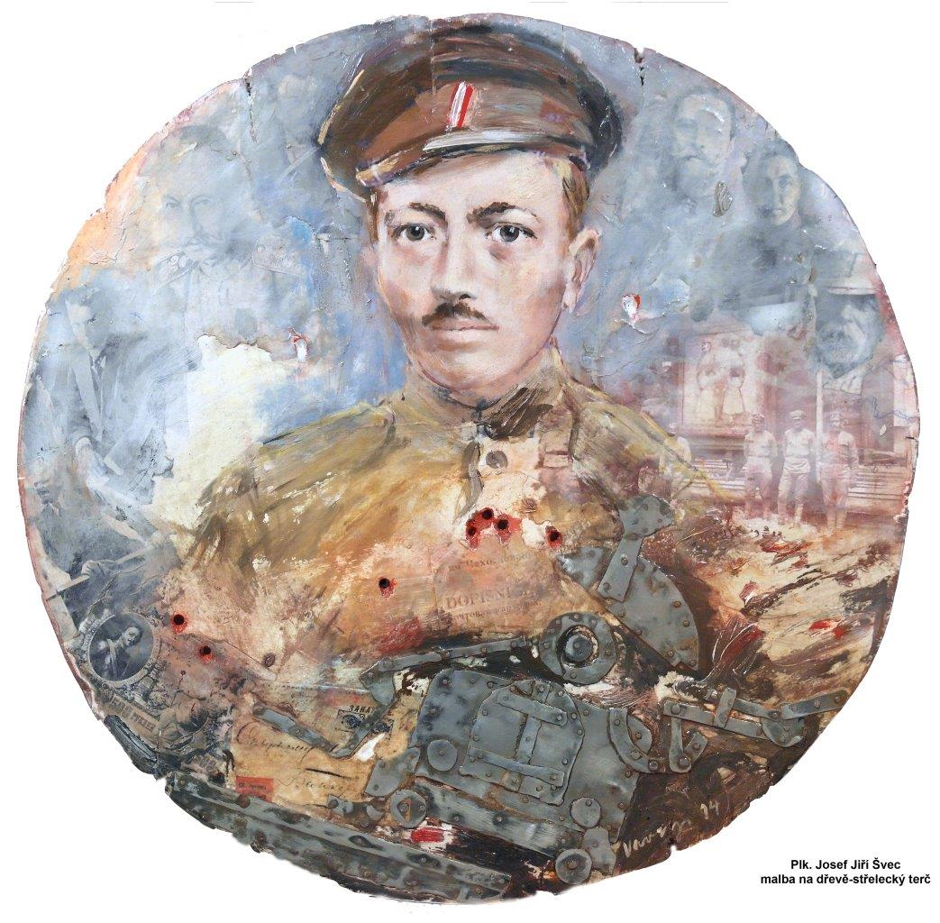 "Colonel Josef Jiří Švec" - a portrait from a picture cycle called "Czech Memory" (This cycle is dedicated to dramatic historical events and personalities who wrote the history of the independent state of Bohemia and the Slovaks from its origin (1918) to the present (2018); form of wok of art: painting on wood - circular "shooting target" with a diameter of 60 cm; Author: academic painter Pavel Vavrys; year: 2014.